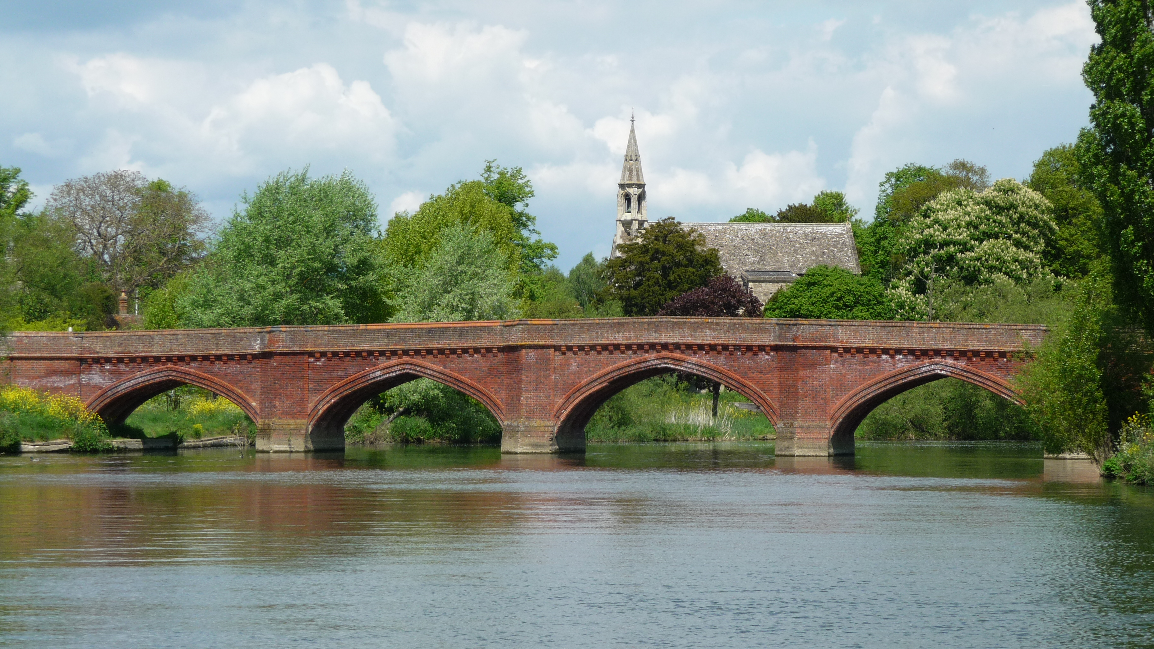 Upstream side of Clifton Hampden Bridge over the Thames. Built in 1867 by George Gilbert Scott. Clifton Hampden church can be seen in the background.